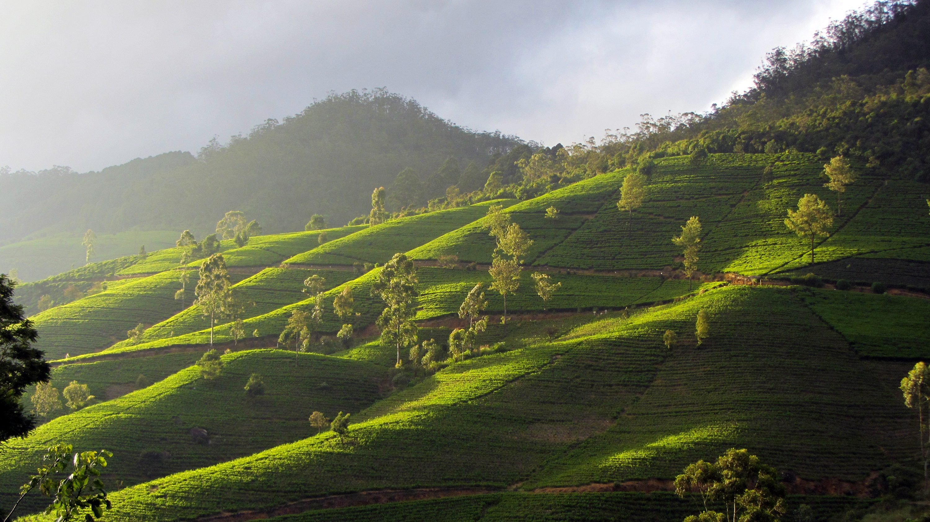 View from Nanu Oya, Sri Lanka.